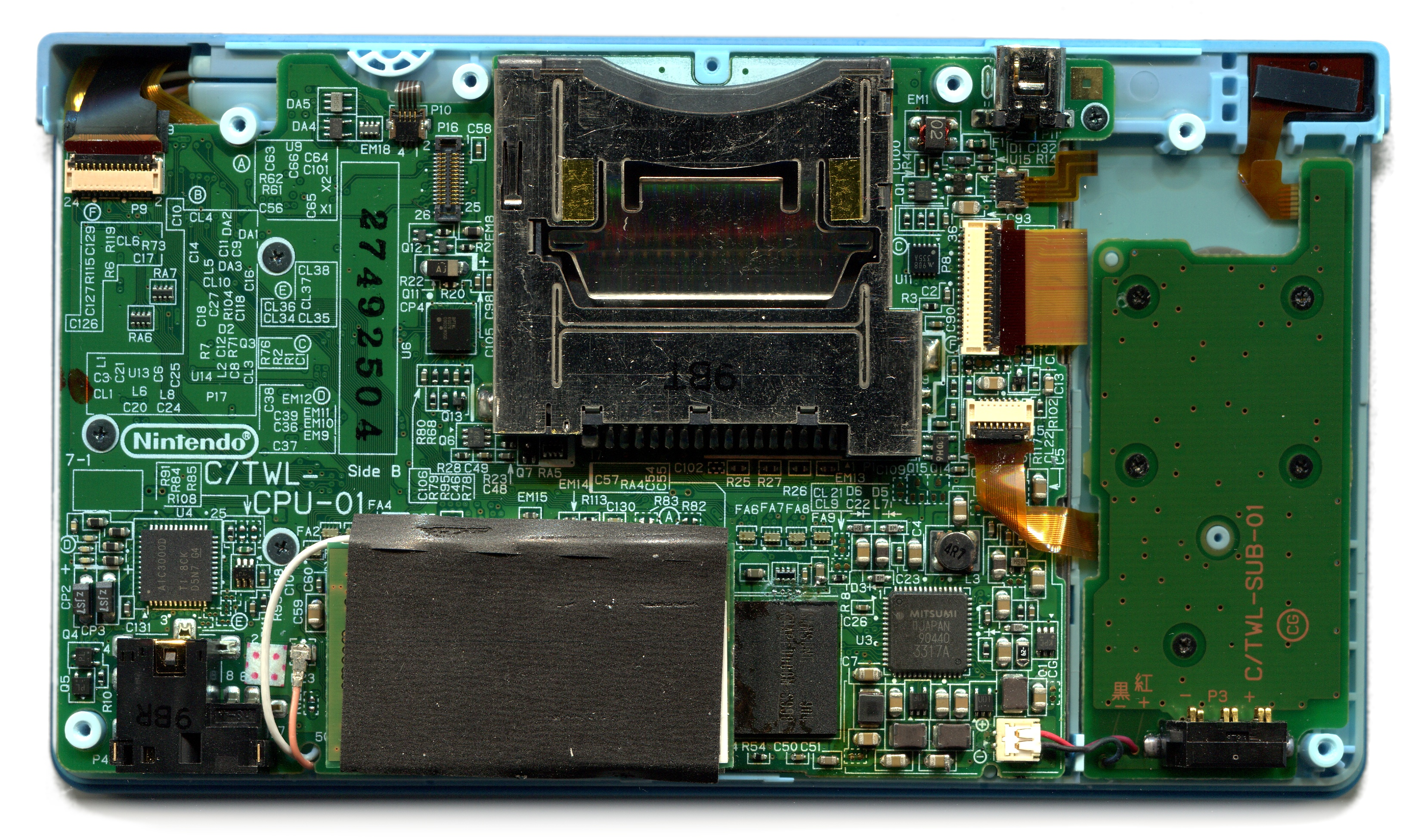 Front view of Nintendo DSi's main and sub printed circuit boards.